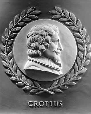 Hugo Grotius marble bas-relief, one of 23 reliefs of great historical lawgivers in the chamber of the U.S. House of Representatives in the United States Capitol. Sculpted by C. Paul Jennewein in 1950. Diameter 28 inches.